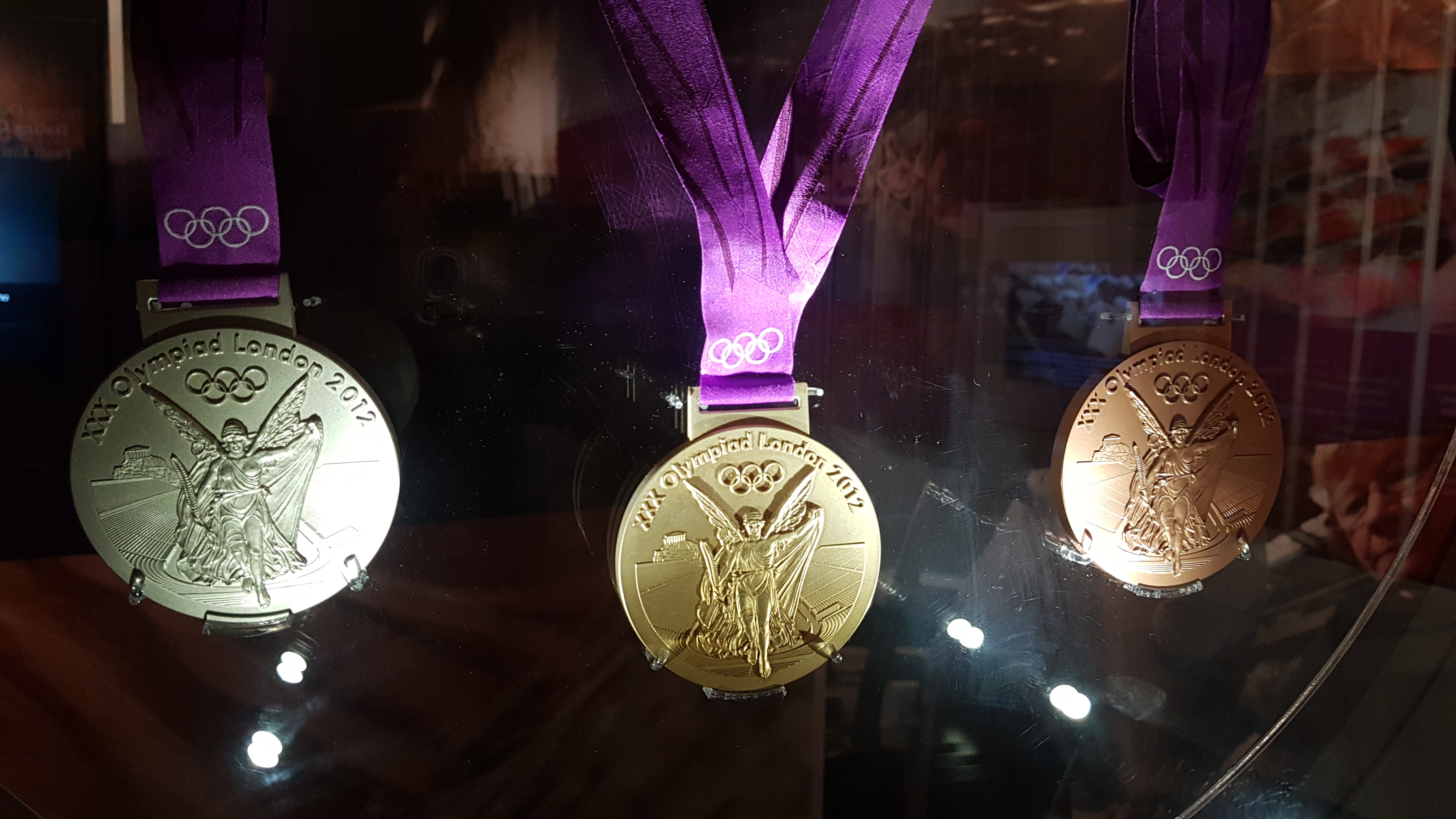 Medals of Olympic Games London 2012